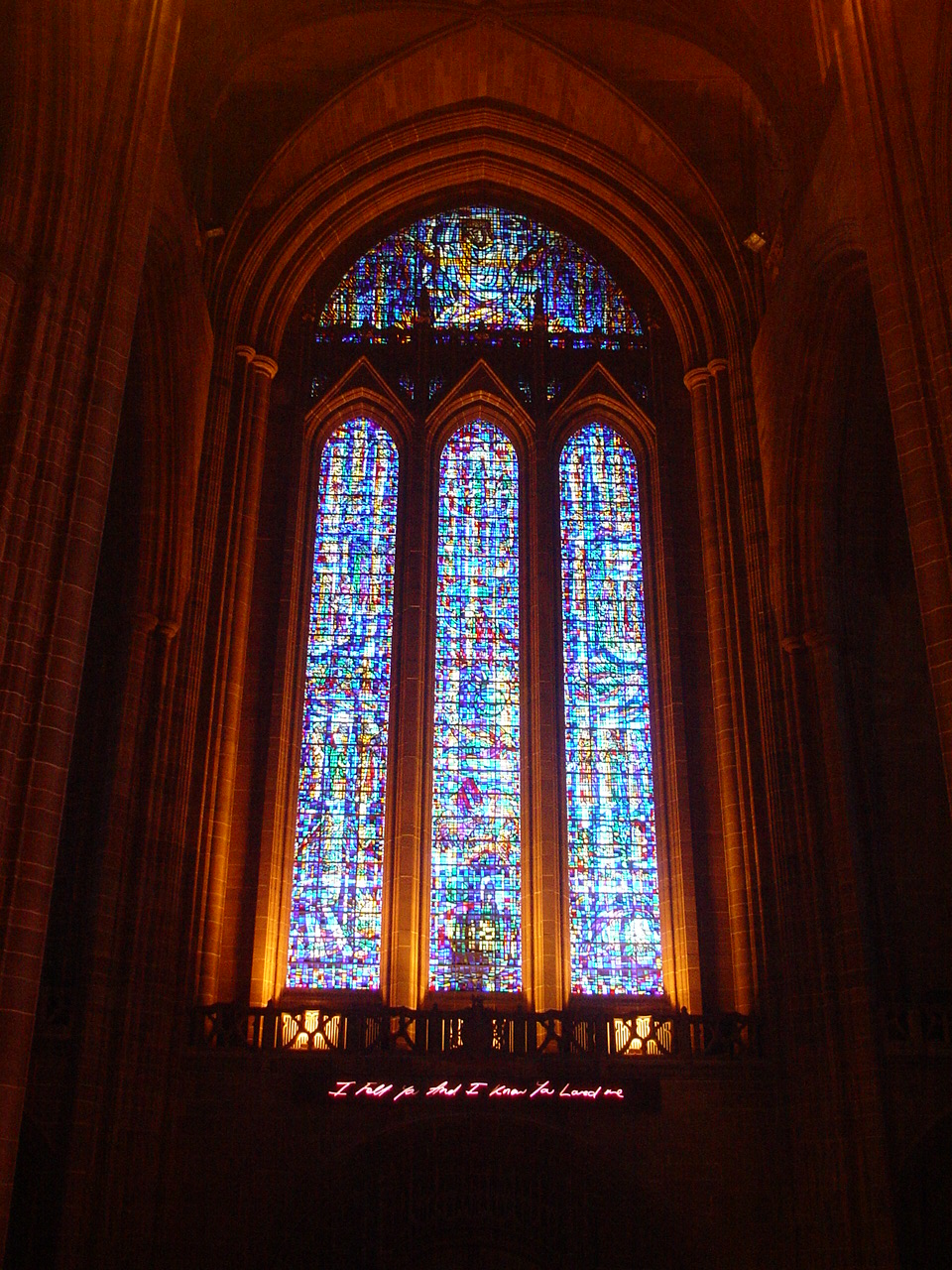 Liverpool Anglican Cathedral, England.